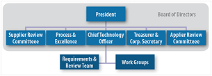 Governing body of SiLA